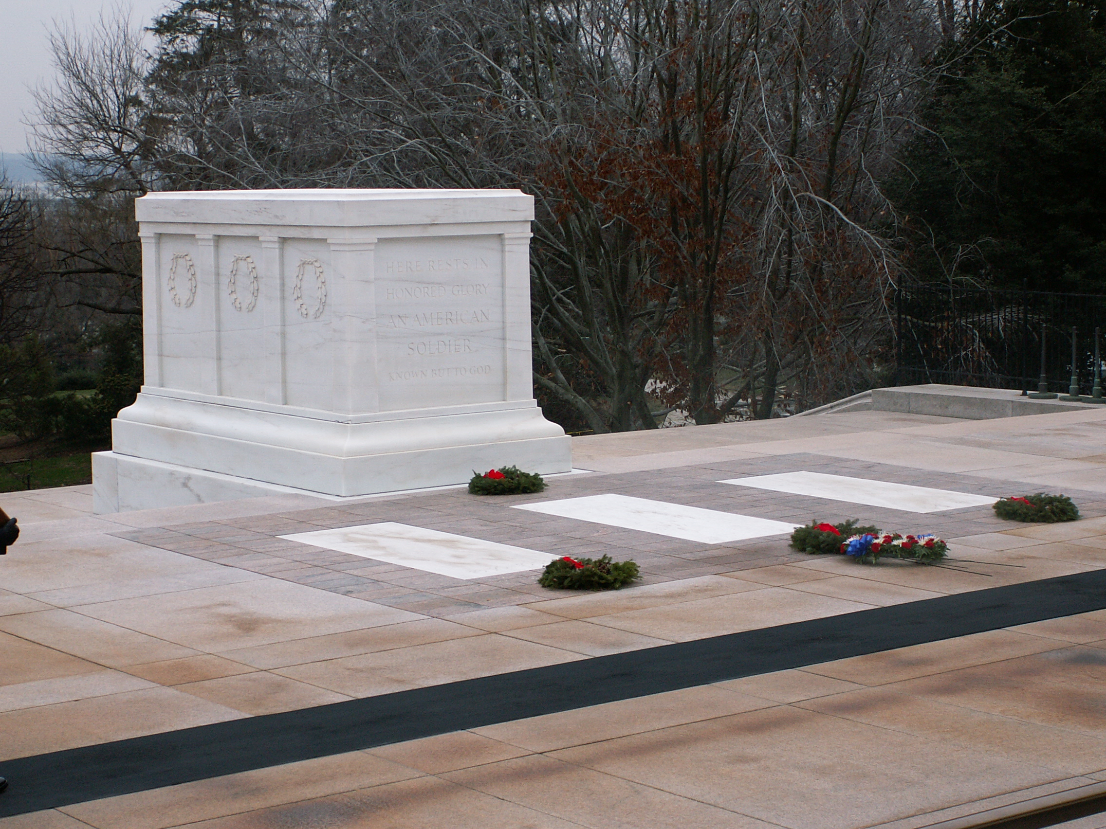 Tomb of the Unknowns, Arlington National Cemetery